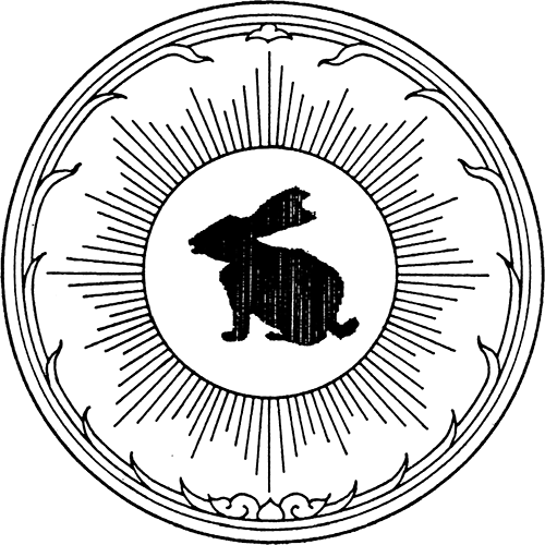 Provincial seal of Chanthaburi province.